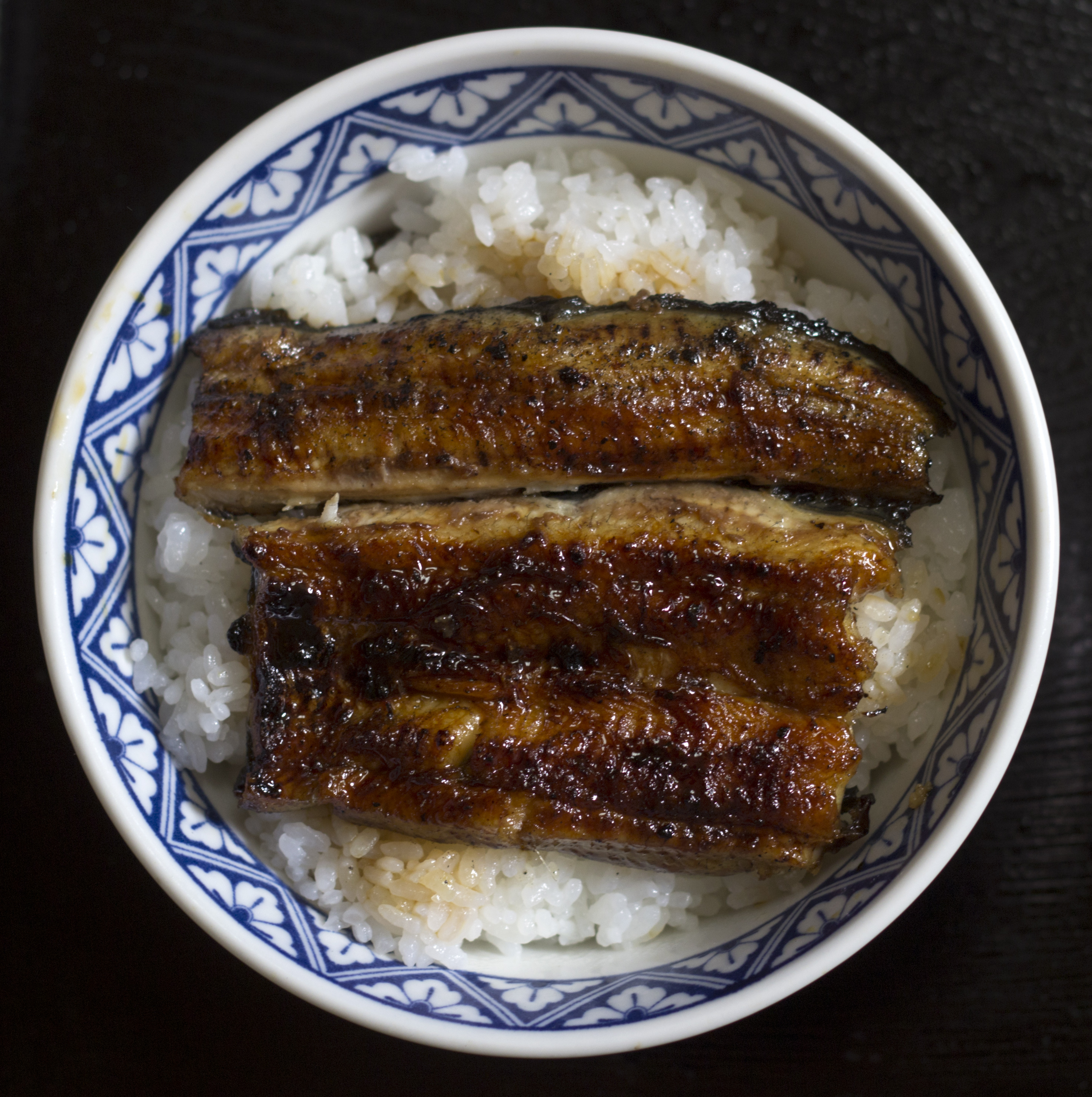 Unadon at a restaurant on the eastern side of Lake Hamanako, Hamamatsu, Shizuoka Prefecture, Japan.